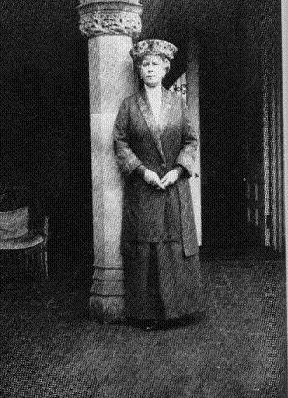 Historically significant photograph of Queen Mary from 1920 belonging to Adcote School.